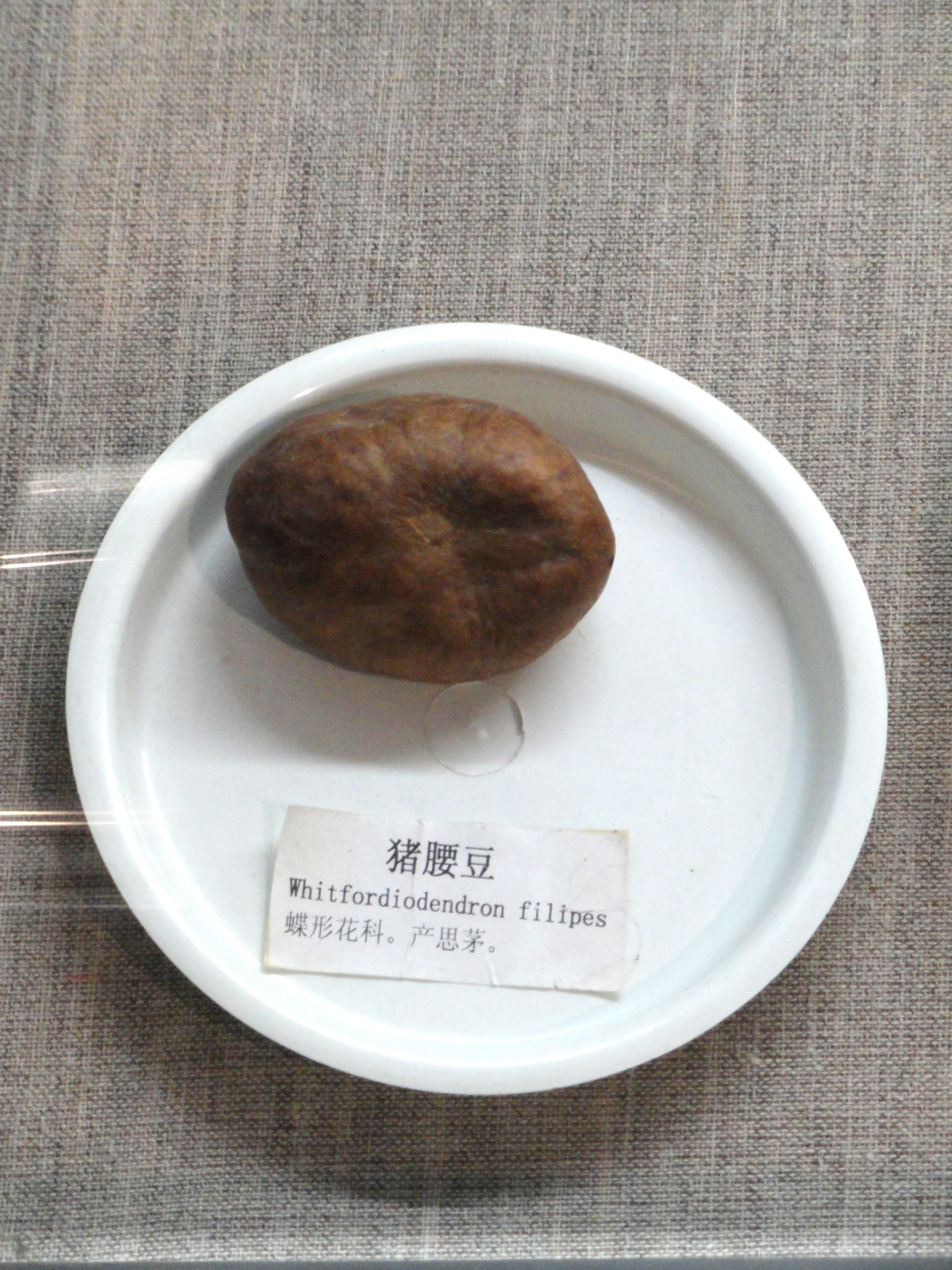 Seeds exhibited in the Kunming Botanical Garden, Kunming, Yunnan, China.